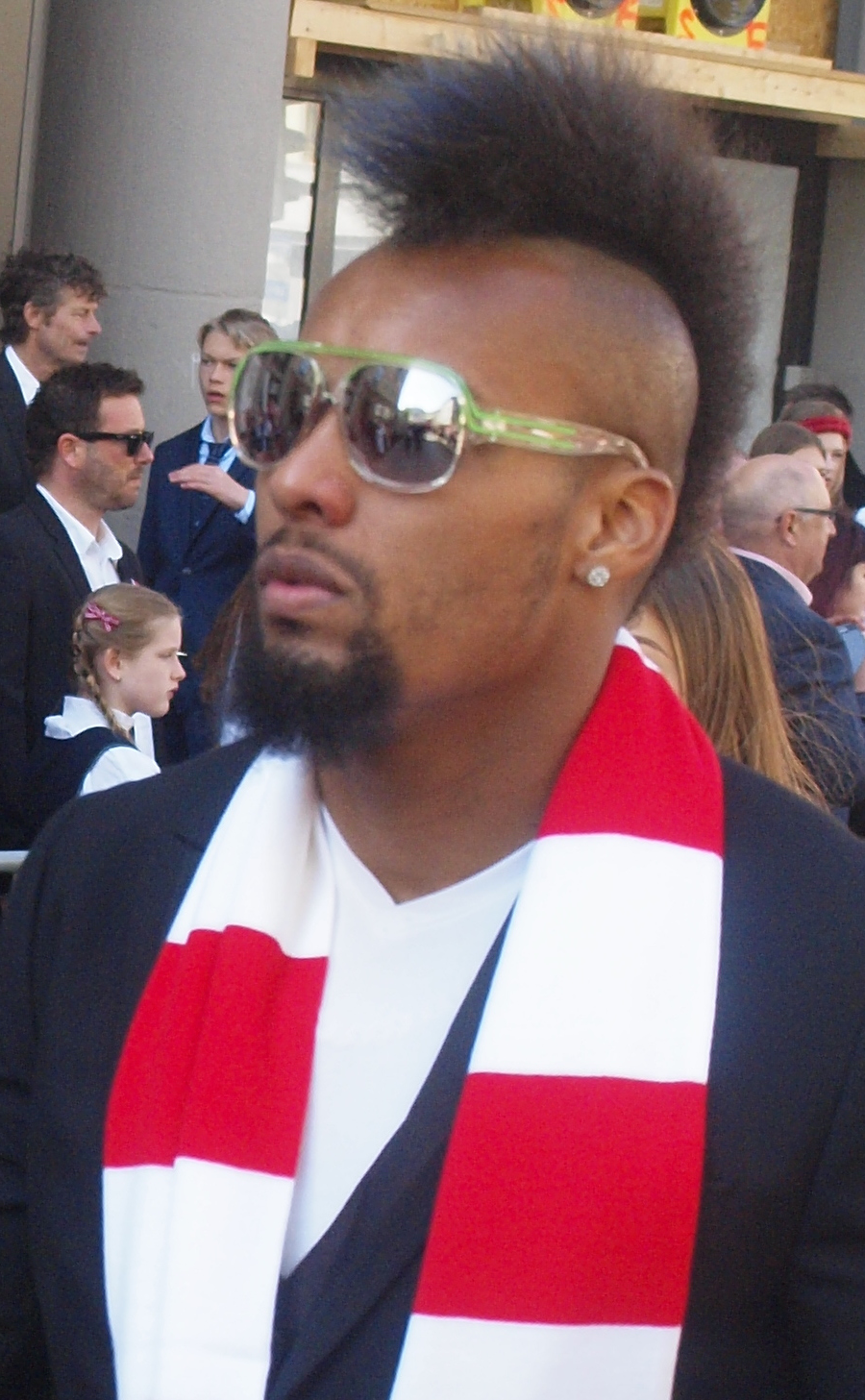 Bismar Acosta on 17th of May Parade in Bergen - 2018.